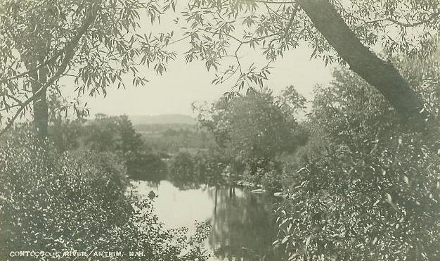 Contoocook River, Antrim, NH; from a ca. 1915 postcard.